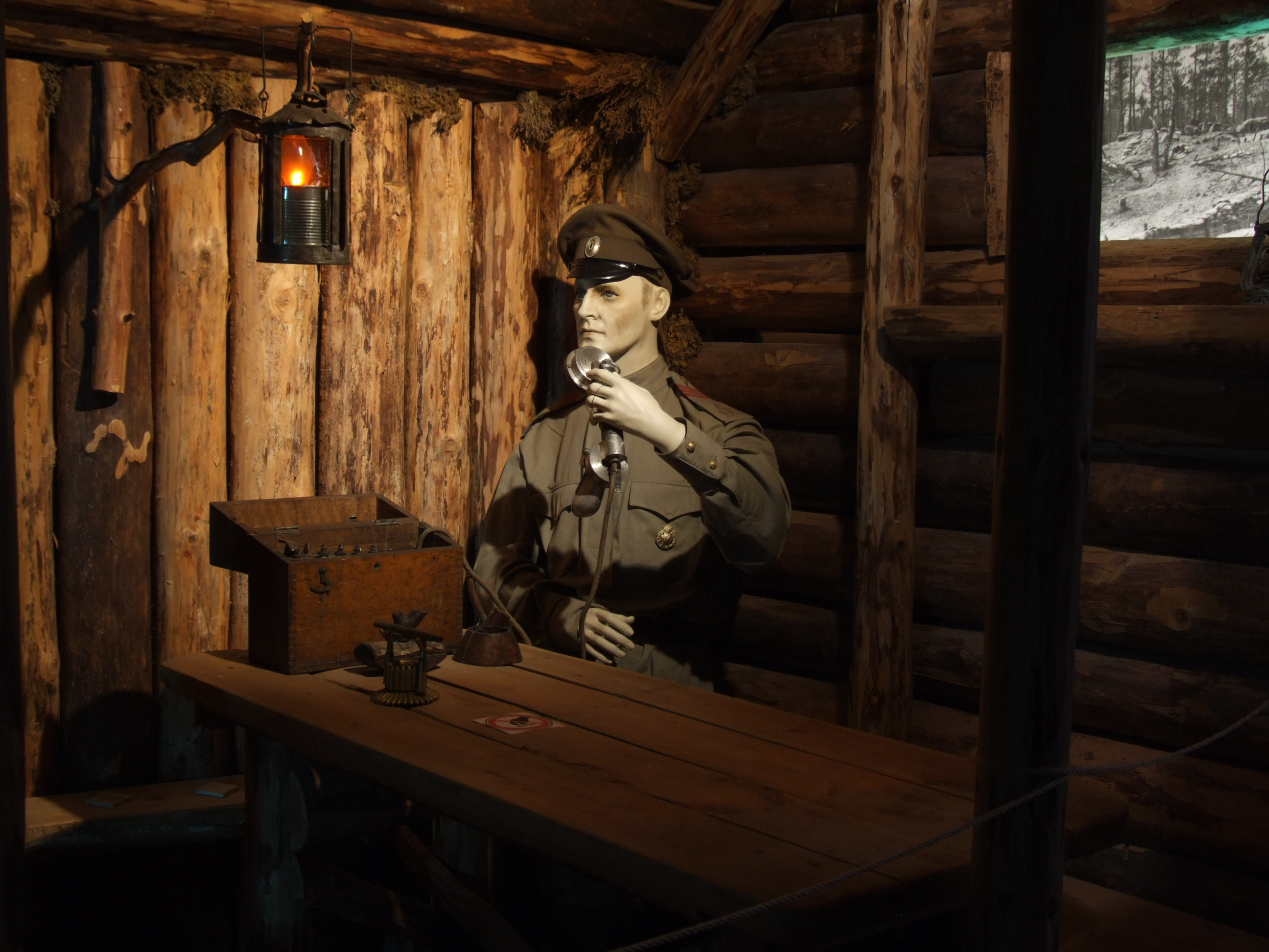 Russian Imperial soldier with phone - War Museum in Riga